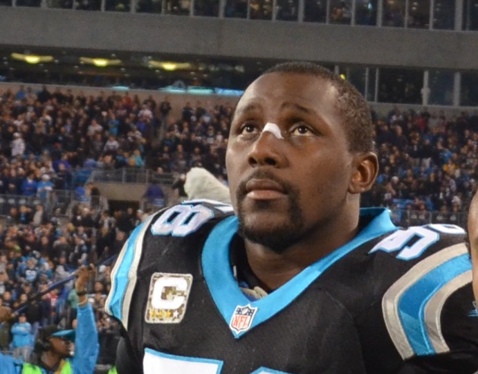 Carolina Panthers linebacker, Thomas Davis, in a game against the New England Patriots on November 18, 2013.